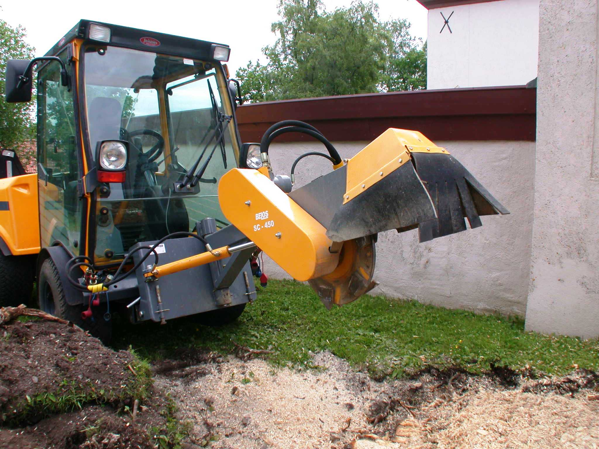 Part of a stump grinder outside Brunflo kyrka, Sweden